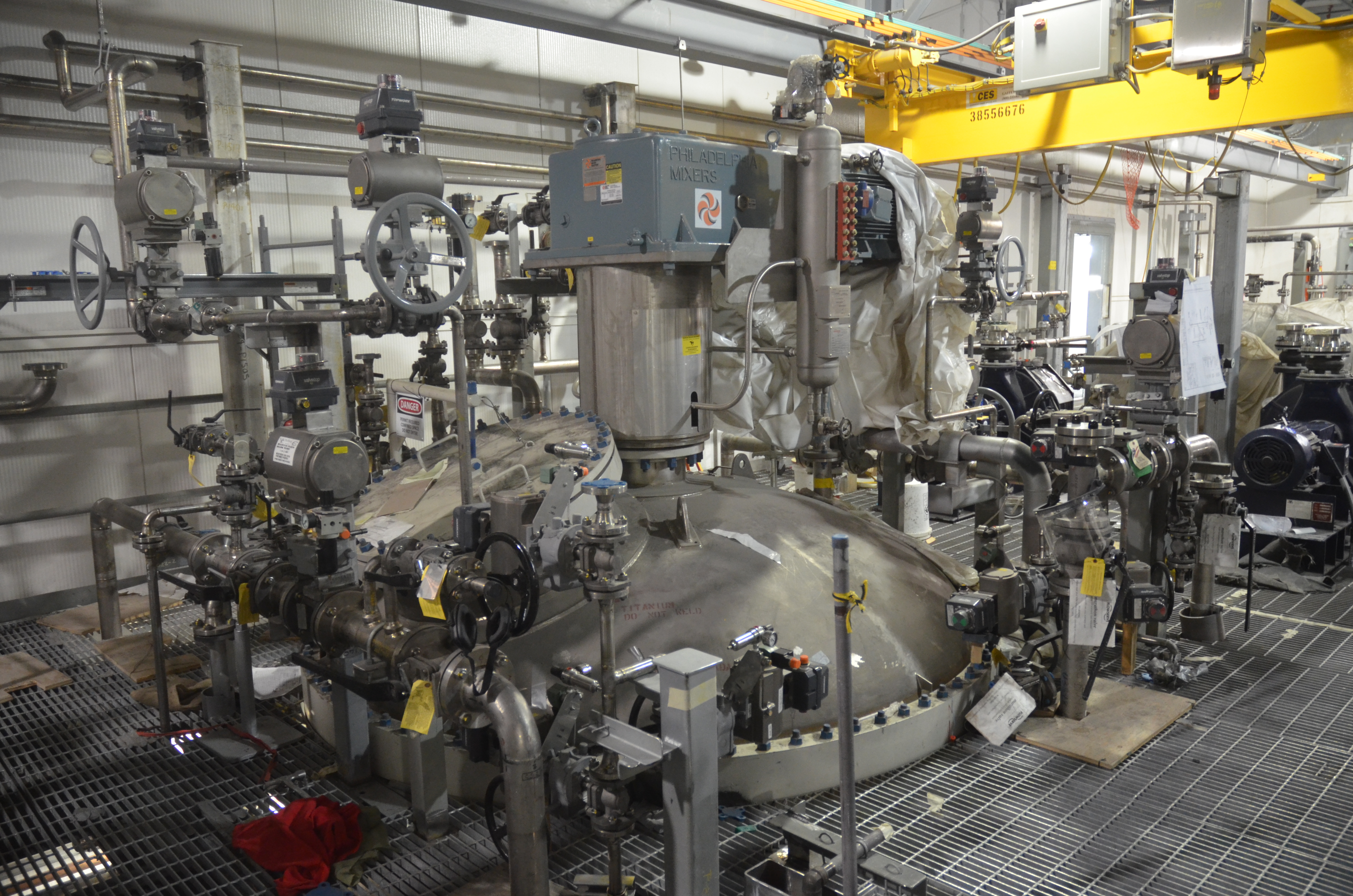 Pueblo Chemical Agent-Destruction Pilot Plant Agent Processing Building This photo taken from the upper level processing room shows one of the agent reactor tanks at the Pueblo Chemical Agent-Destruction Pilot Plant. The motor, visible on top, will turn the agitators inside the tank.